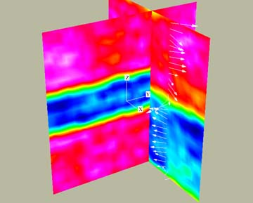 MHD Simulation of Solar Wind